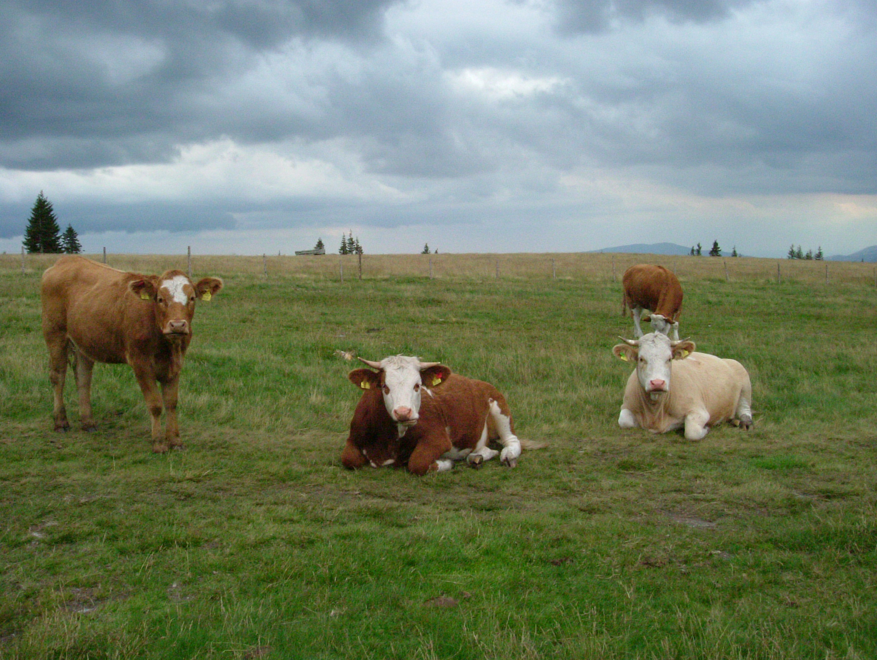 Cows, Rattener Alm (Styria, Austria)